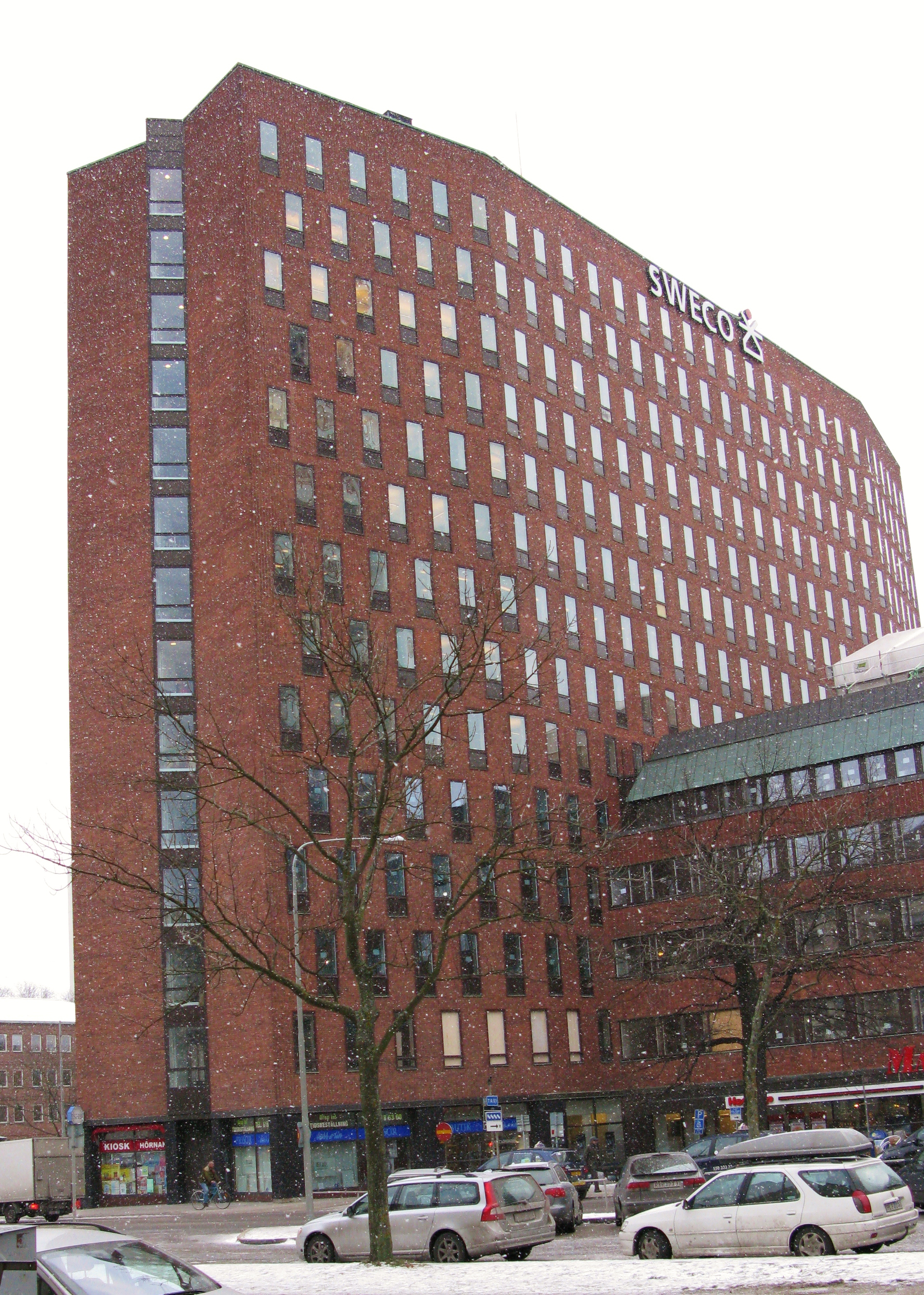 Former institute of journalism premises in Stockholm that later become university college